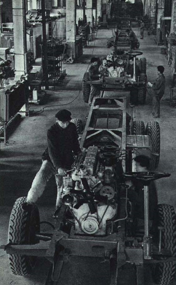 1965-02 1965 济南汽车制造厂